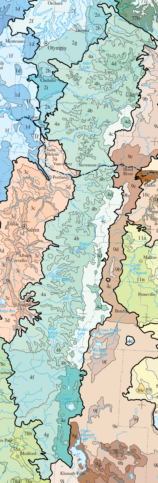 Level IV ecoregions in the Cascades ecoregion, as defined by the EPA. This map is a draft and may now be slightly outdated. For more information about these ecoregions, see [1]